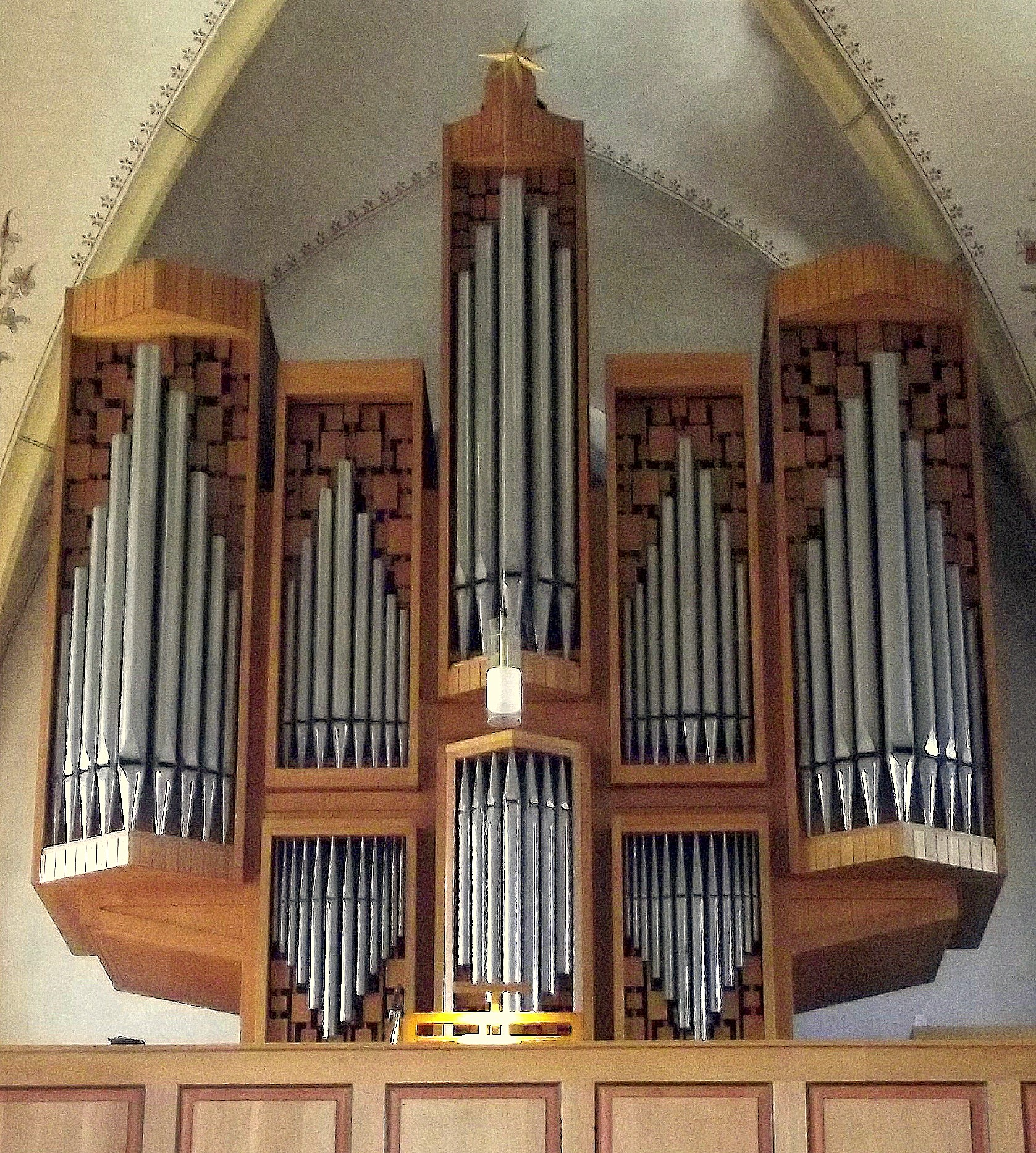 Interior of the roman catholic church in Theley, Saarland